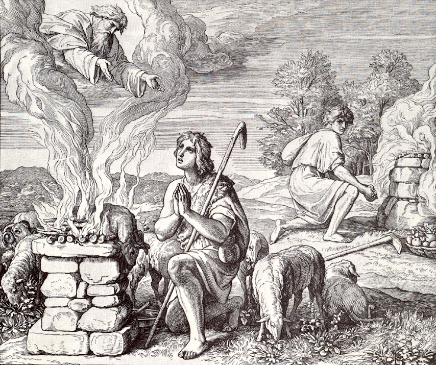 Woodcut for "Die Bibel in Bildern", 1860.